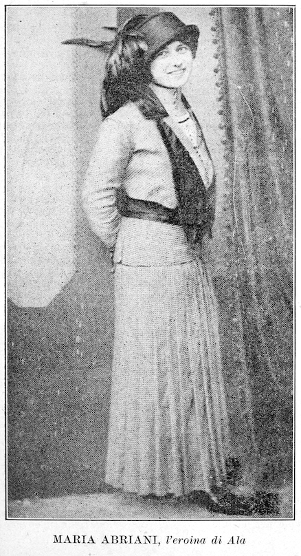 Maria Abriani (1889-1966)